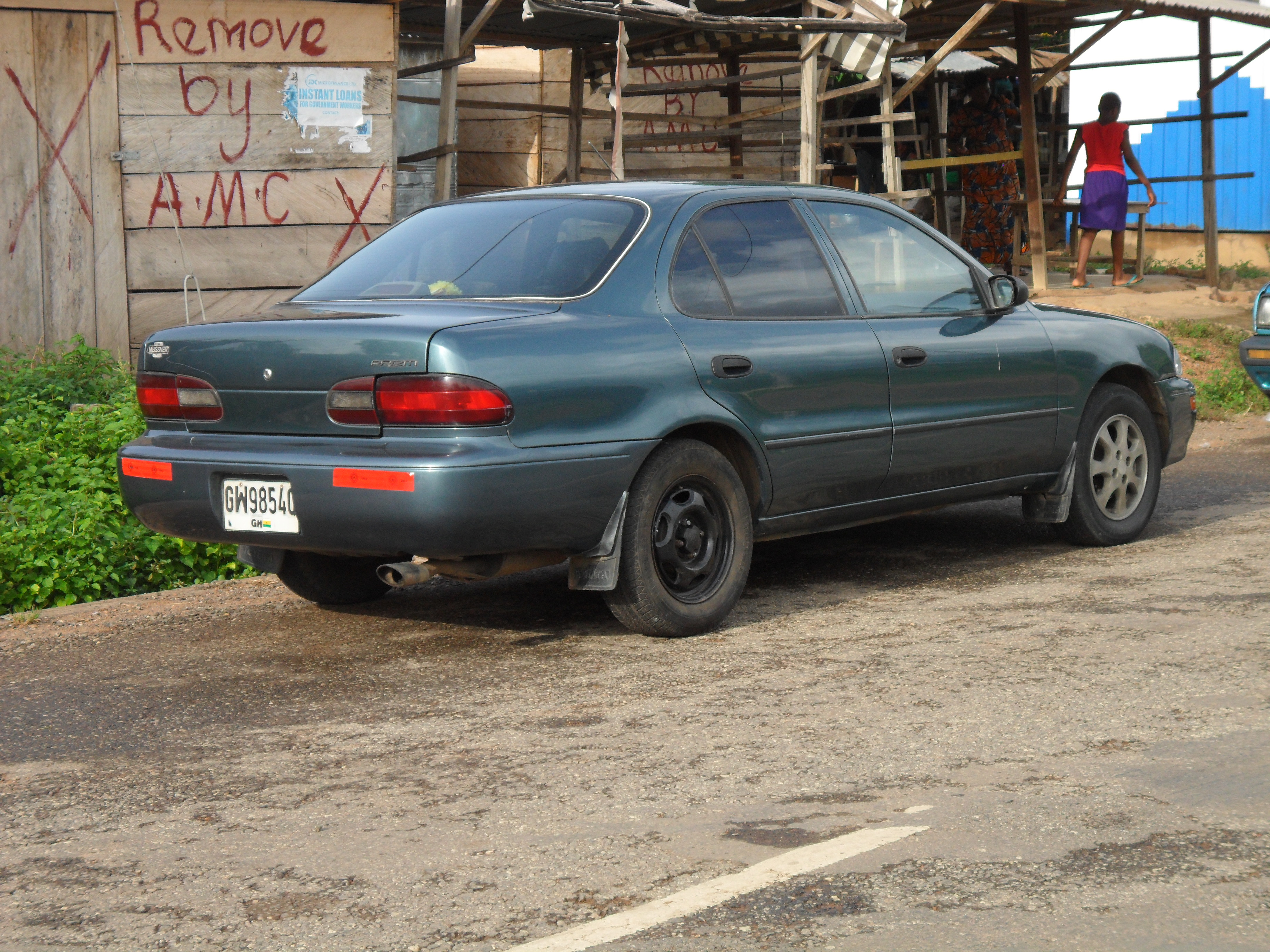 A very interesting car, one designed exclusively for the US market was the Geo Prizm, later called the Chevrolet Prizm. The Geo/Chevrolet Prizm (Chevrolet Prizm starting 1998) was a compact car derived from the Japanese domestic market Toyota Sprinter and jointly developed by Toyota and General Motors. All Prizms were built at NUMMI (New United Motor Manufacturing, Inc), a joint venture company between Toyota and General Motors in Fremont, California. Judging by the dealer sticker, this one was once sold by Meissner Auto Sales of Glenolden, Pennsylvania. This one is photographed in Ghana. I like the look of these, doubt any exist in the UK though.